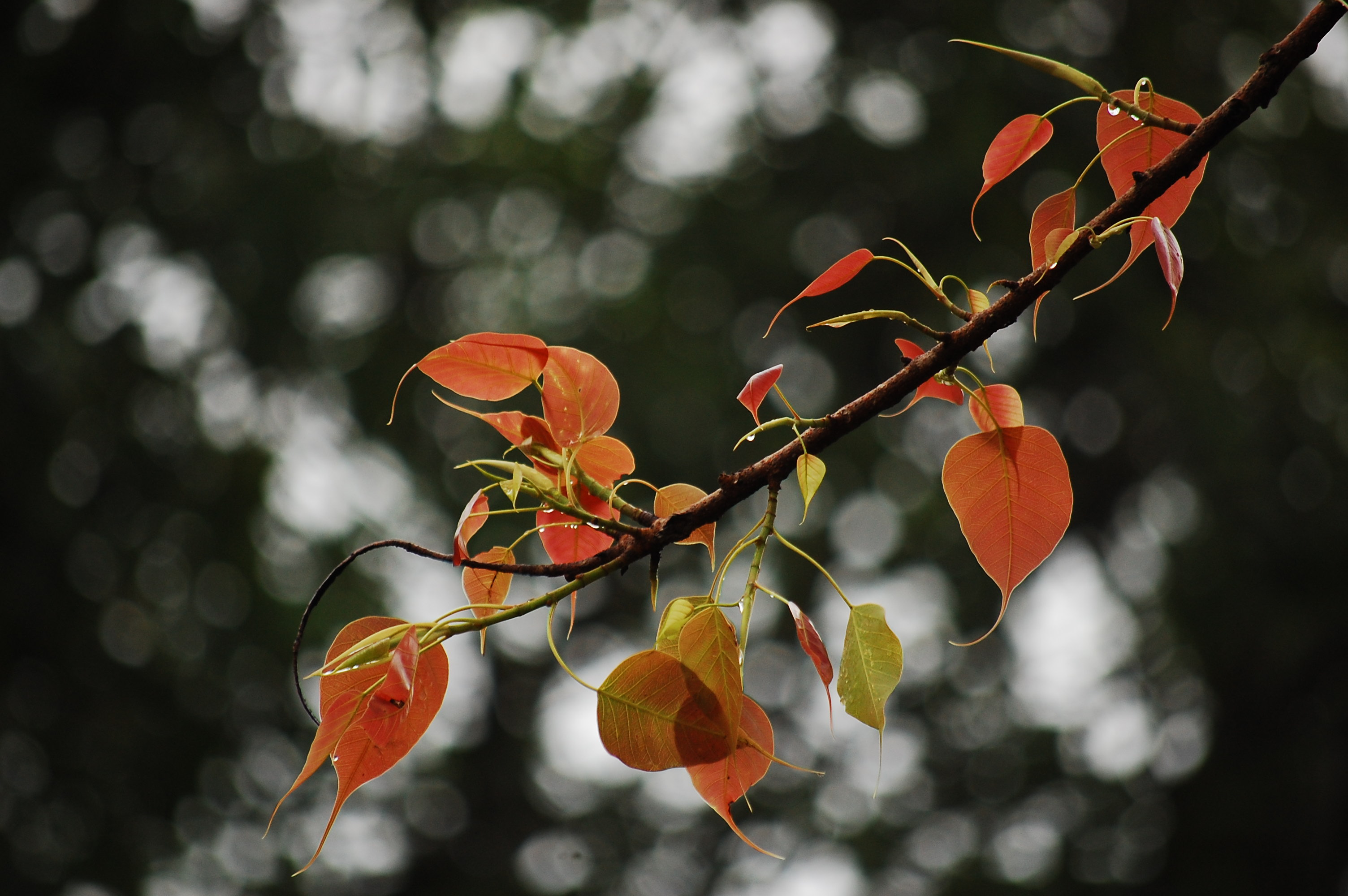 New Leaves of Ficus Religiosa Sacred fig virgin shot No PP